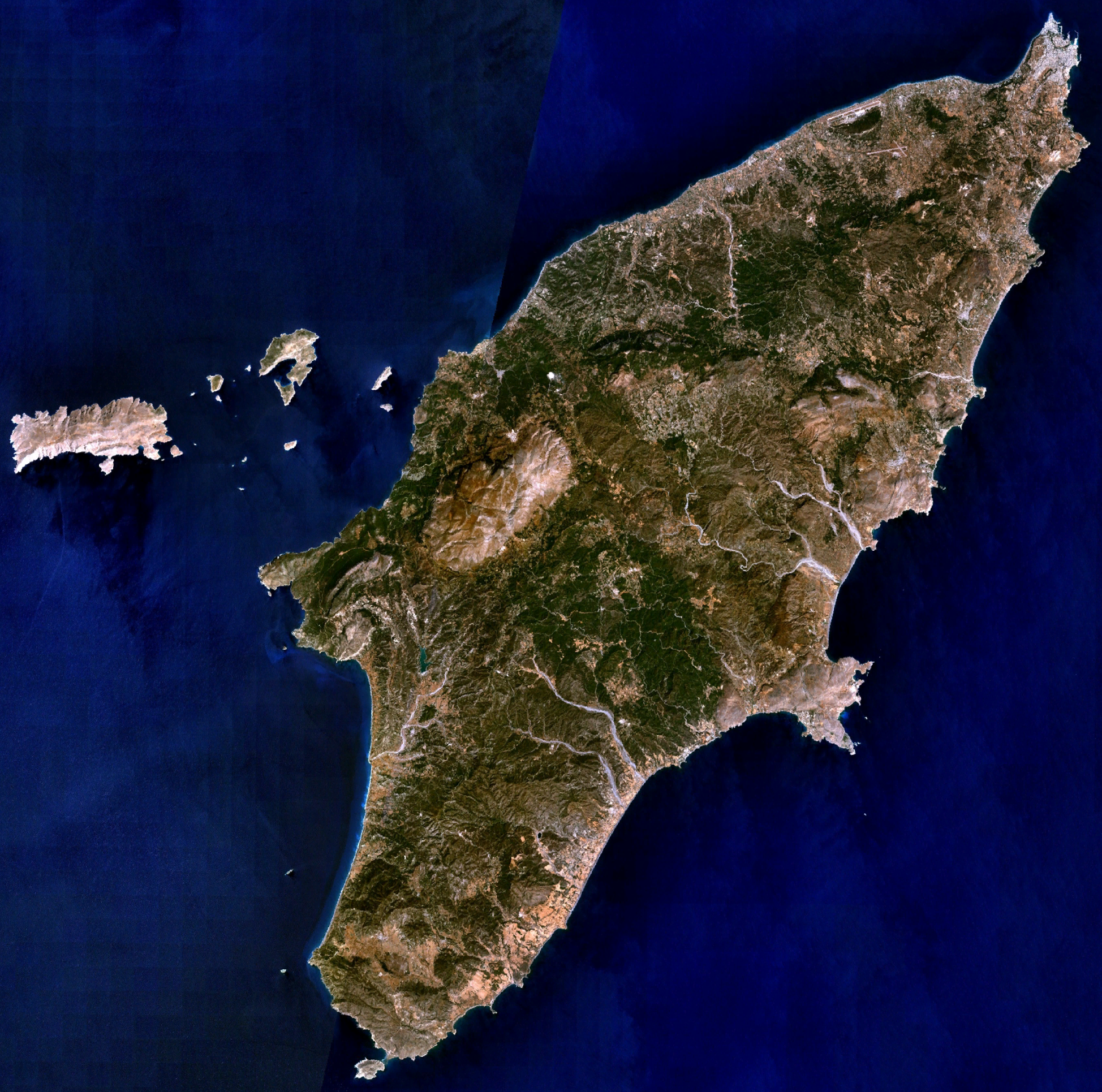 Visible colour satellite image of Rhodes.